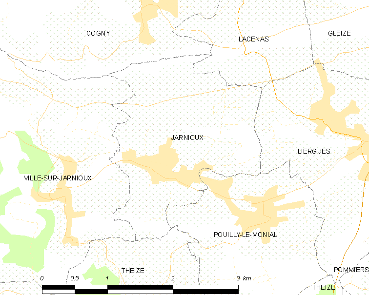 Map of French municipality